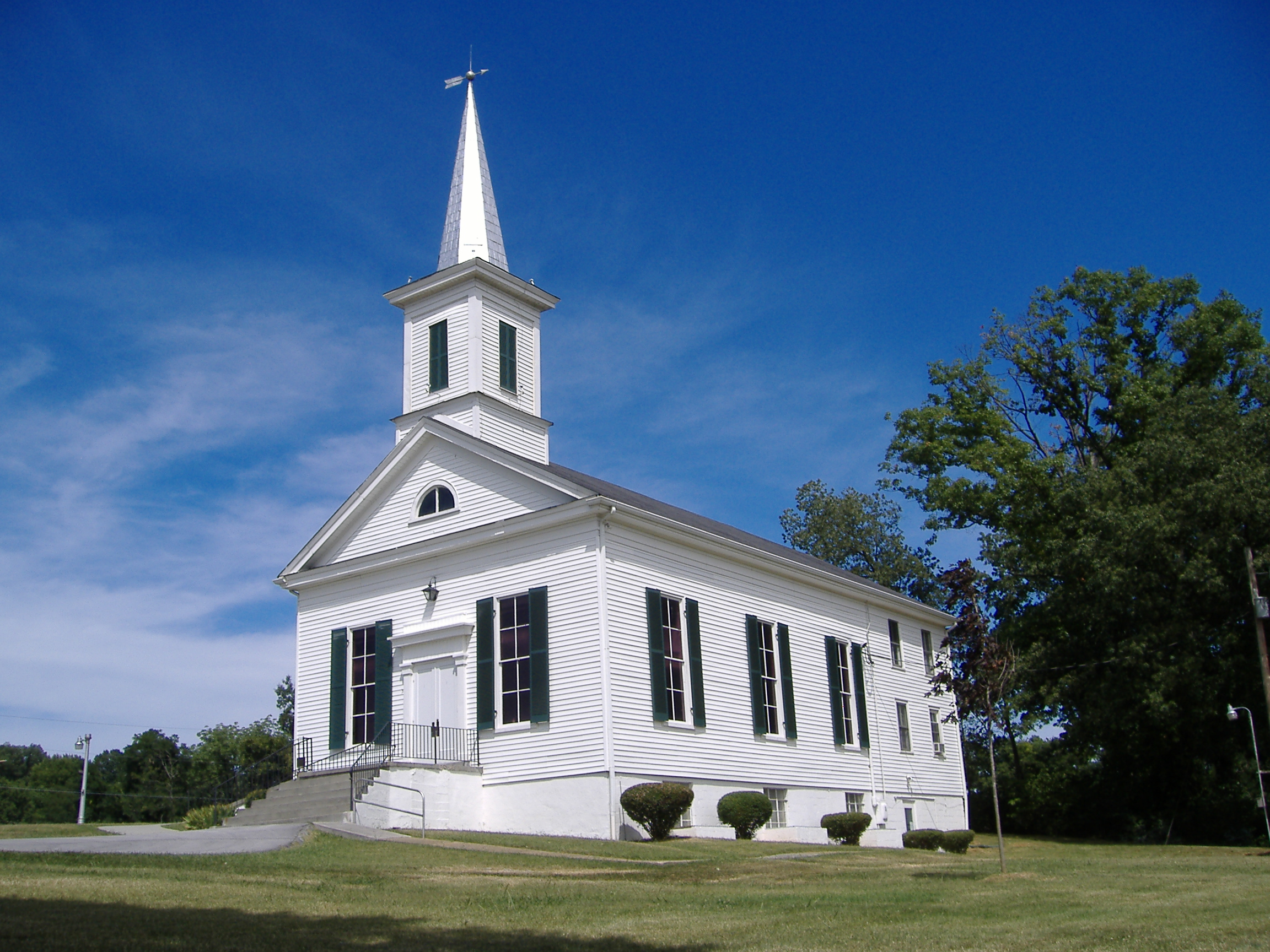 Old Kingsport Presbyterian Church, looking northeast